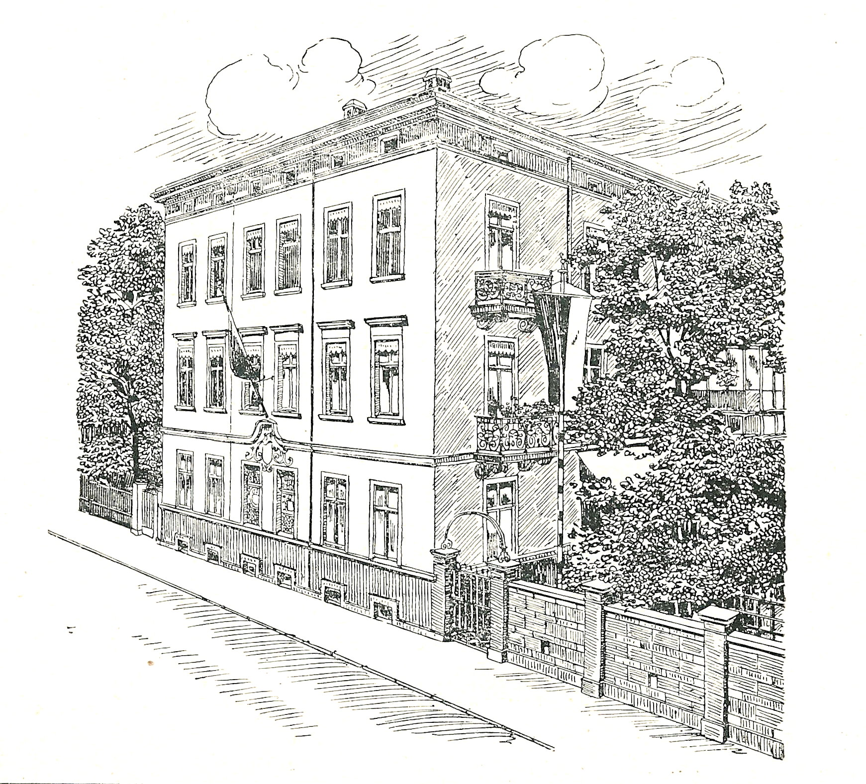 Former house of student fraternity Corps Lusatia Leipzig, Karlstrasse 7, in Leipzig/Saxonia, Germany